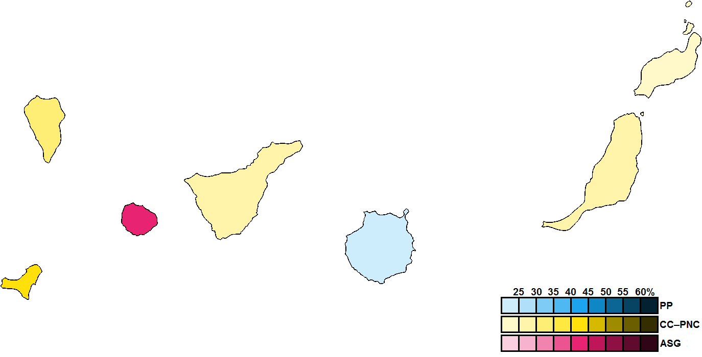 District results for the 2015 Canarian regional election.